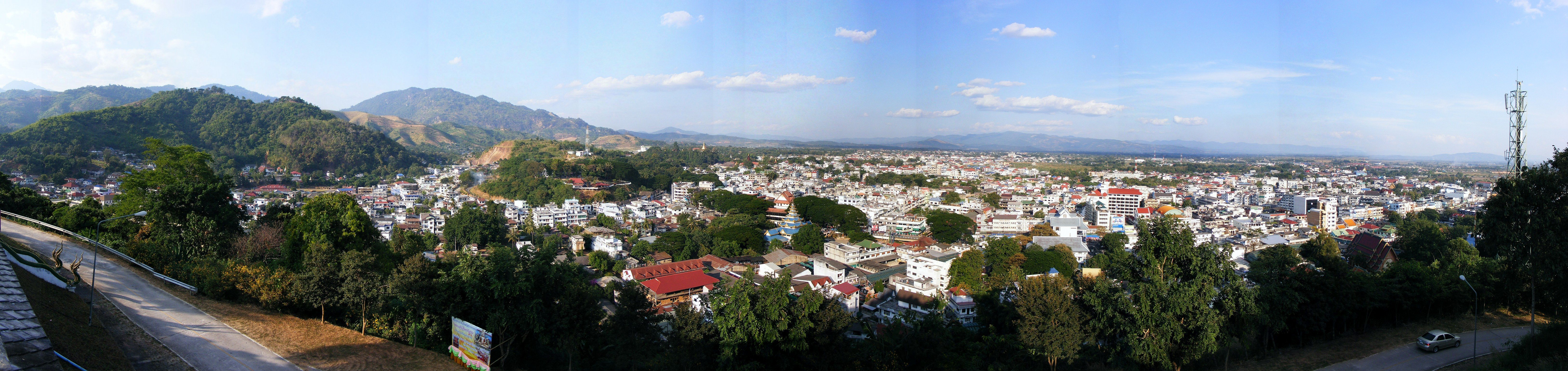 Myanmar-Thailand in Wat Phra That Doi waw (in Mae Sai).